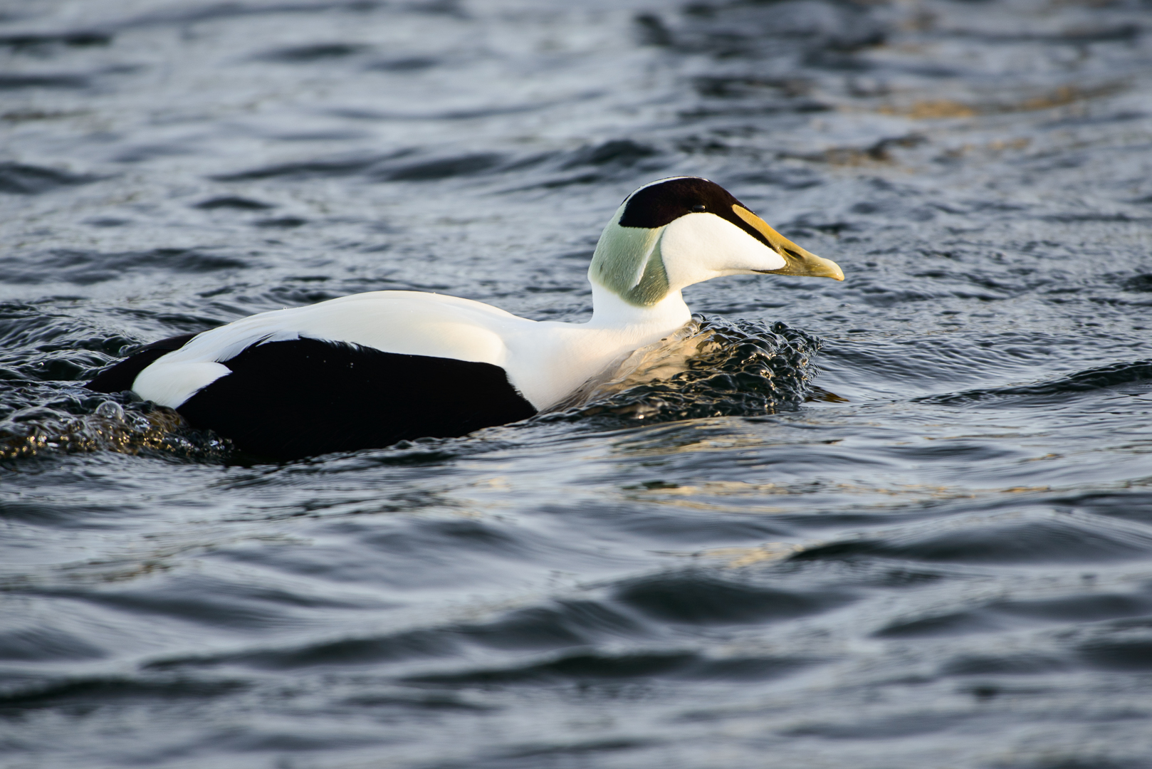 Common Eider